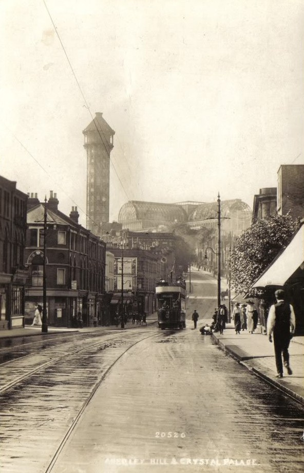 Anerley Hill around 1910